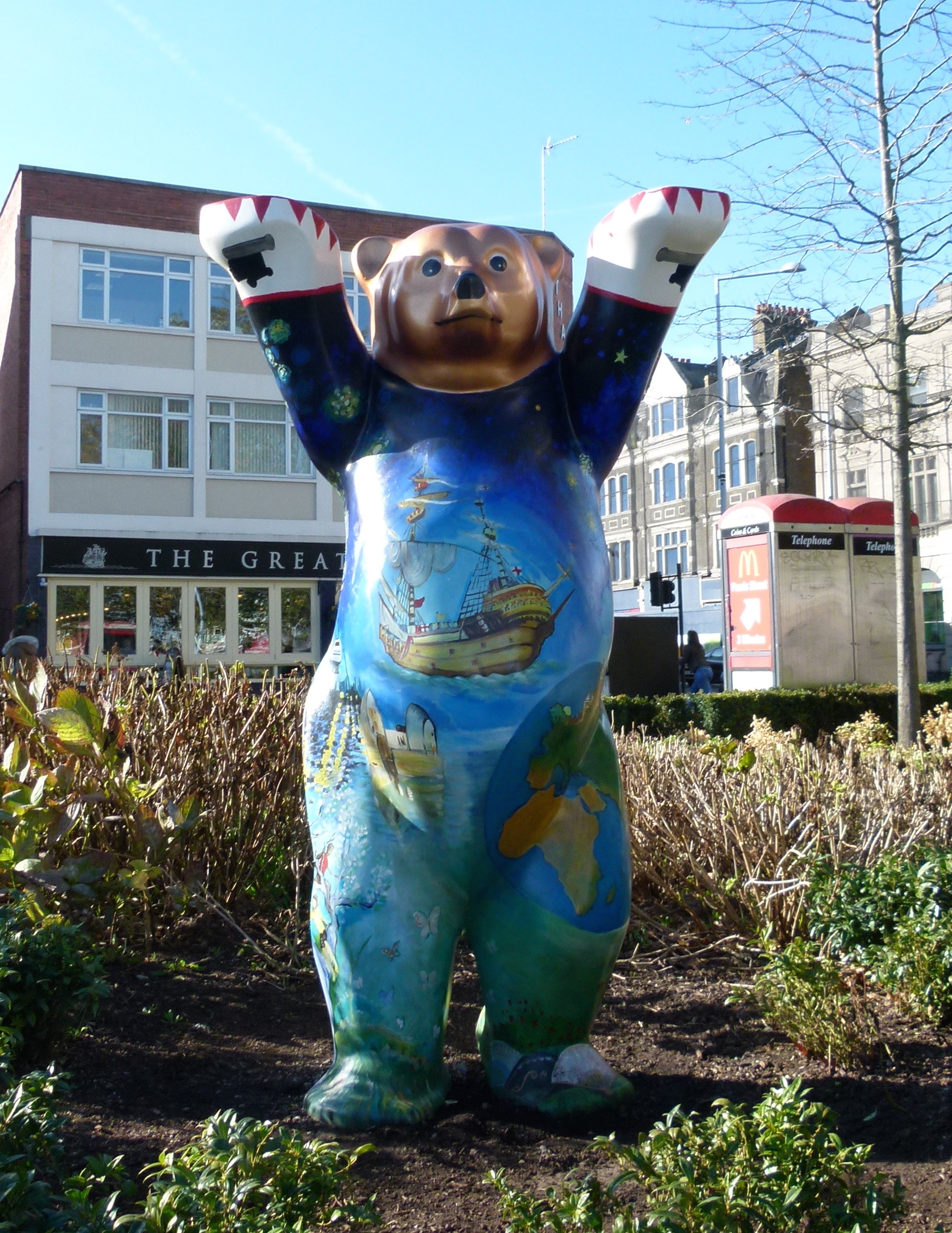 Berlin Bear, public sculpture in General Gordon Square in central Woolwich, South East London, UK. The statue was designed by Michele Petit-Jean after a design by pupils of Eltham Hill School and erected to celebrate the 50th anniversary of friendship between the Royal Borough of Greenwich and the Berlin borough of Reinickendorf.